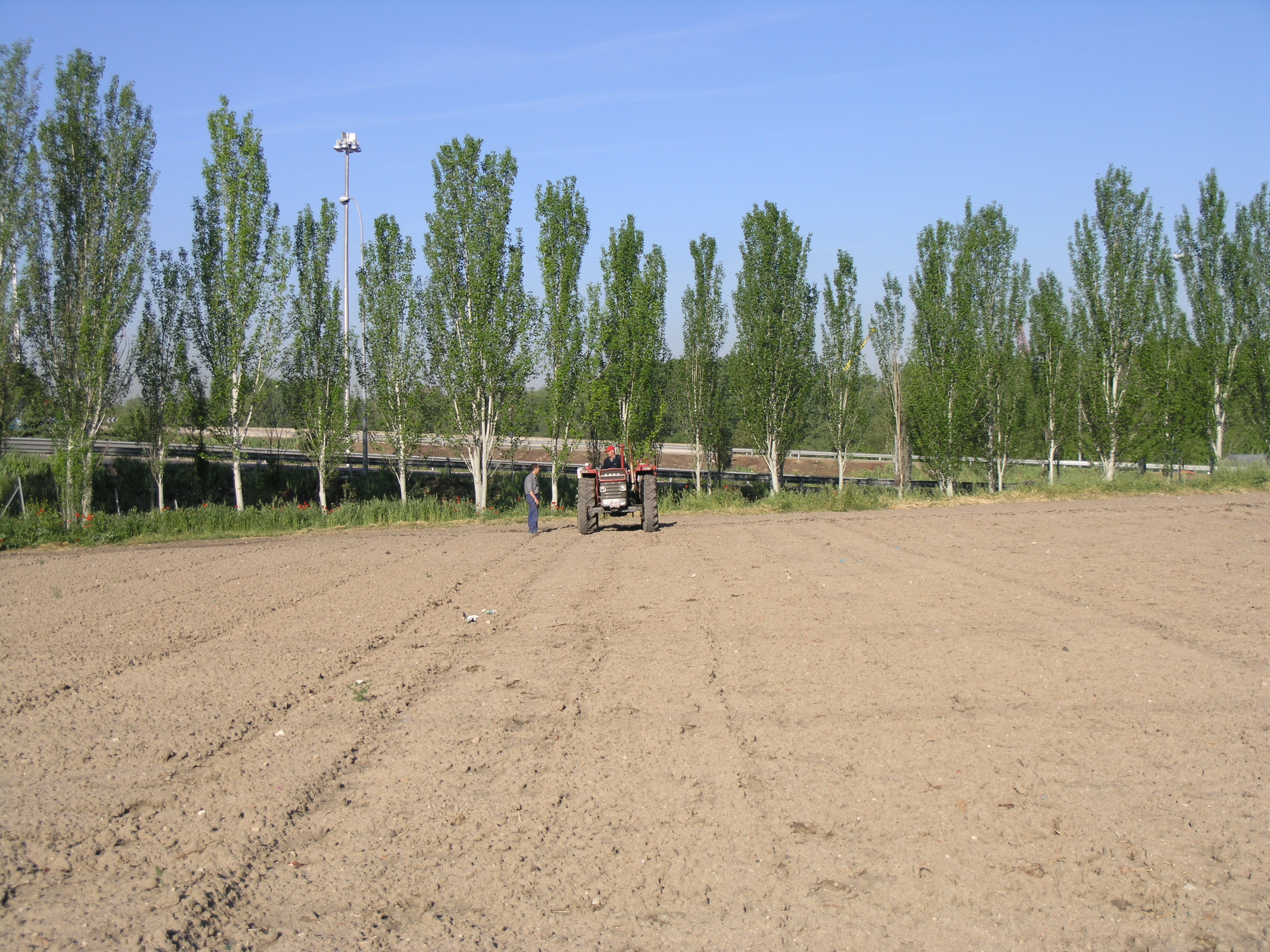 Experimental farm of the Technical University of Madrid (Spain)